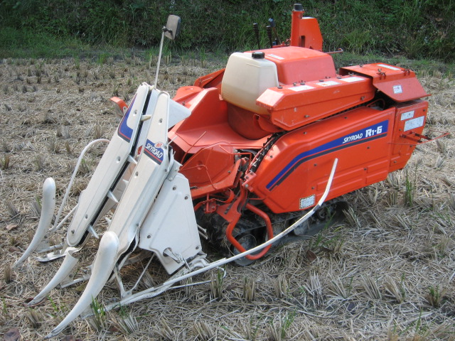 A Japanese-made compact combined machine for rice harvest.